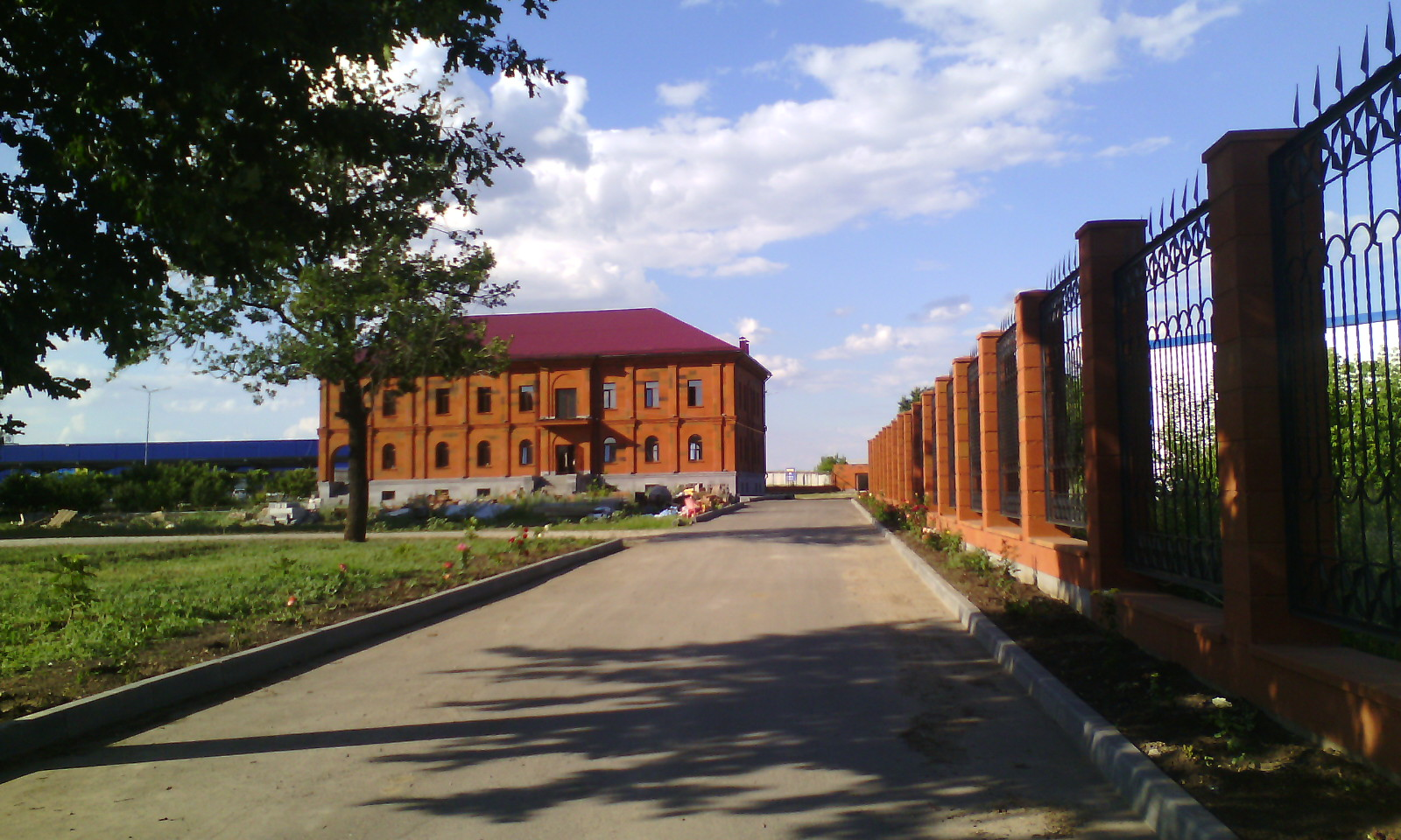 Armenian school next to the church and the road to it